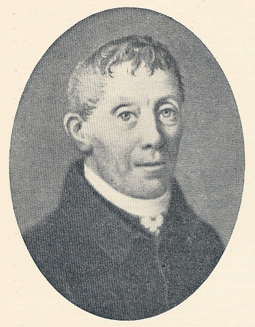 Mikael Pedersen Kierkegaard. The father of Søren Kierkegaard. Daguerrotype.